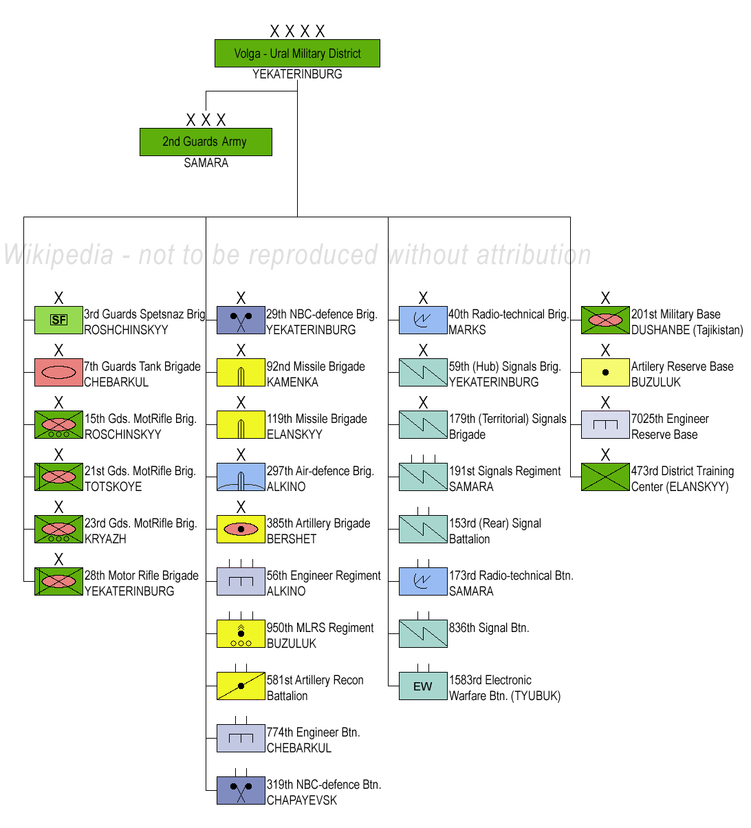 Russian Ground Forces Volga - Ural Military District Structure 2009